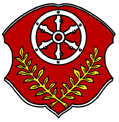 granted 24 November 1926.